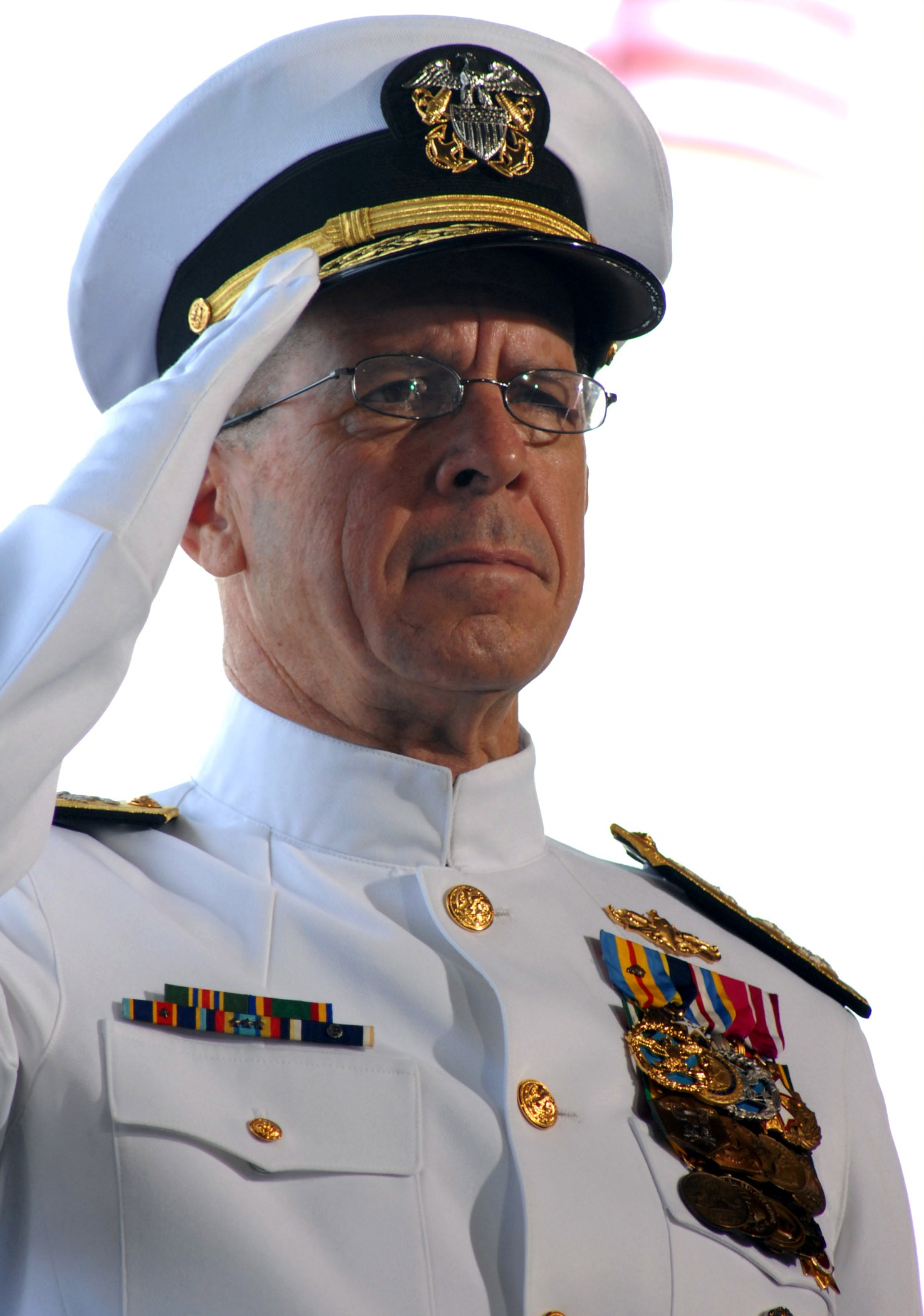 PEARL HARBOR, Hawaii (May 8, 2007) - Chief of Naval Operations (CNO) Adm. Mike Mullen salutes as the U.S. Pacific Fleet Band plays ruffles and flourishes during a change of command ceremony for Commander, U.S. Pacific Fleet on board Naval Station Pearl Harbor. Adm. Robert F. Willard, former Vice Chief of Naval Operations, assumed command of U.S. Pacific Fleet from Adm. Gary Roughead during the ceremony. U.S. Navy photo by Mass Communication Specialist 1st Class James E. Foehl (RELEASED)